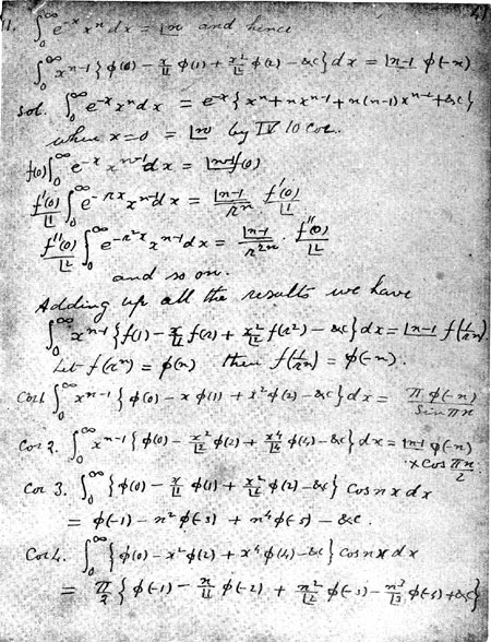 This a page from mathematician Srinavasa Ramanujan's notebooks written down by him between 1903-1910 to show his benefactors to convince them about his abilities as a mathematician.